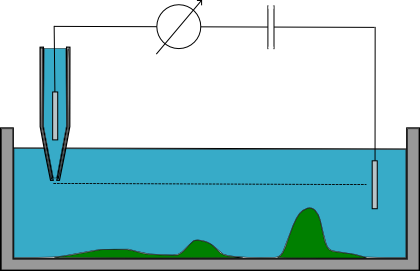 picture representing the constant-z mode of the SICM